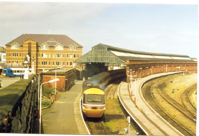 Holyhead. The Railway Station for the Ferry passengers. Change here for Dublin and/or Dun Laoghaire.